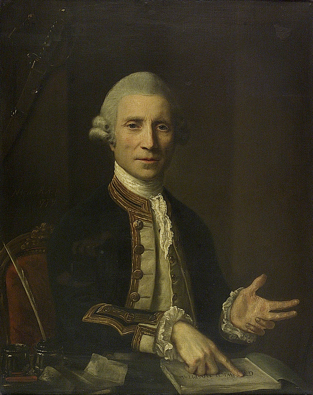 A three-quarter-length seated portrait very slightly to right, showing Baillie wearing captain's full-dress uniform, 1774–87 and a grey tie wig. His sword hangs above his head in the top left of the painting.